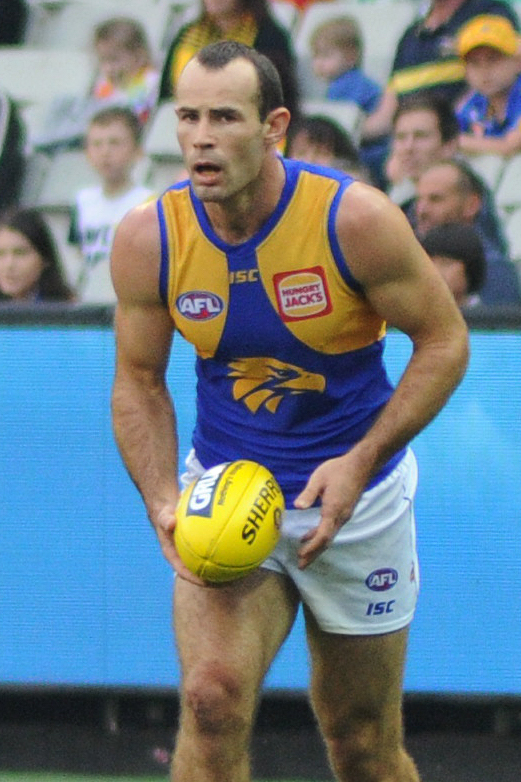 Shannon Hurn during the AFL round five match between Carlton and West Coast on 21 April 2018 at the Melbourne Cricket Ground in Melbourne, Victoria.